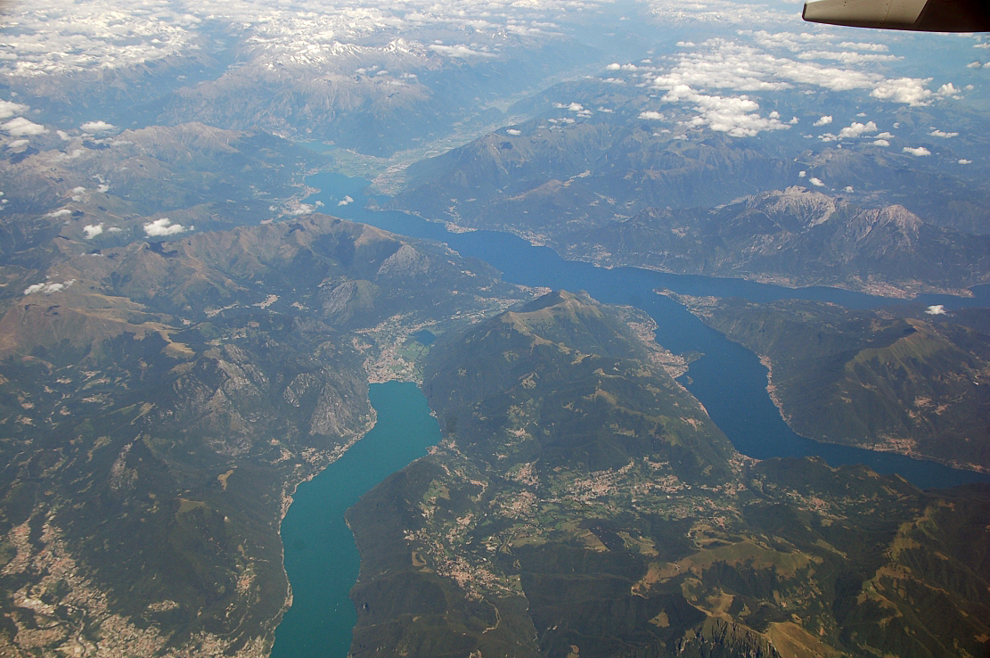 Aerial photographs